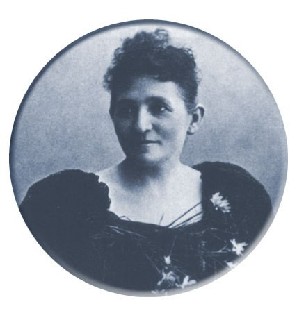 Szidi Rákosi, Hungarian actress 1852-1935